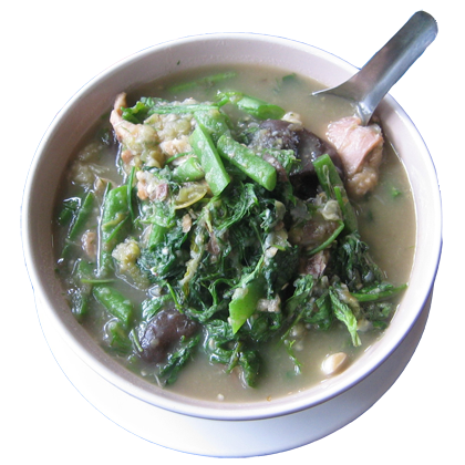 The most popular dish in Luang Prabang